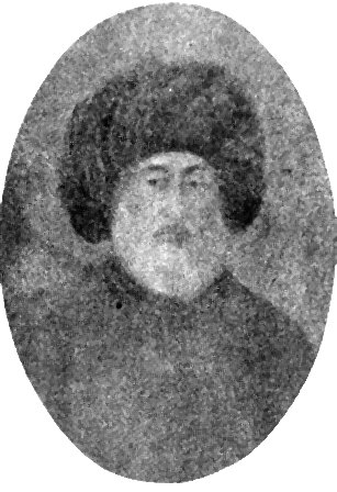 Necip Pasha (also known as Gürcü Mehmet Necip Paşa) was ex-governor-general of Baghdad and he was the father of Grand vizier Mahmud Nedim Pasha.